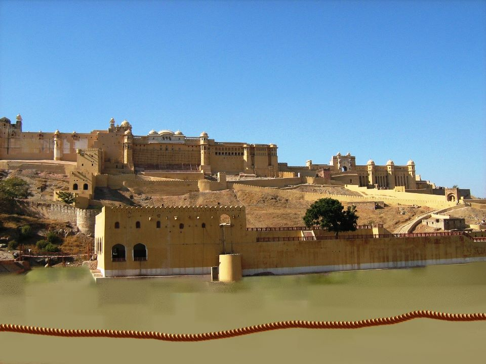 Historical Monument